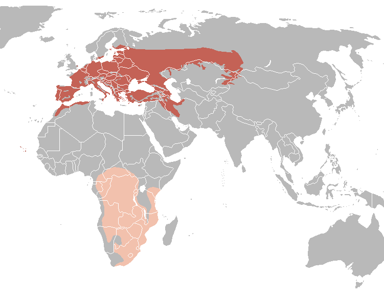 Golden Oriole (Oriolus oriolus) distribution map. Red: summer. Pink: winter